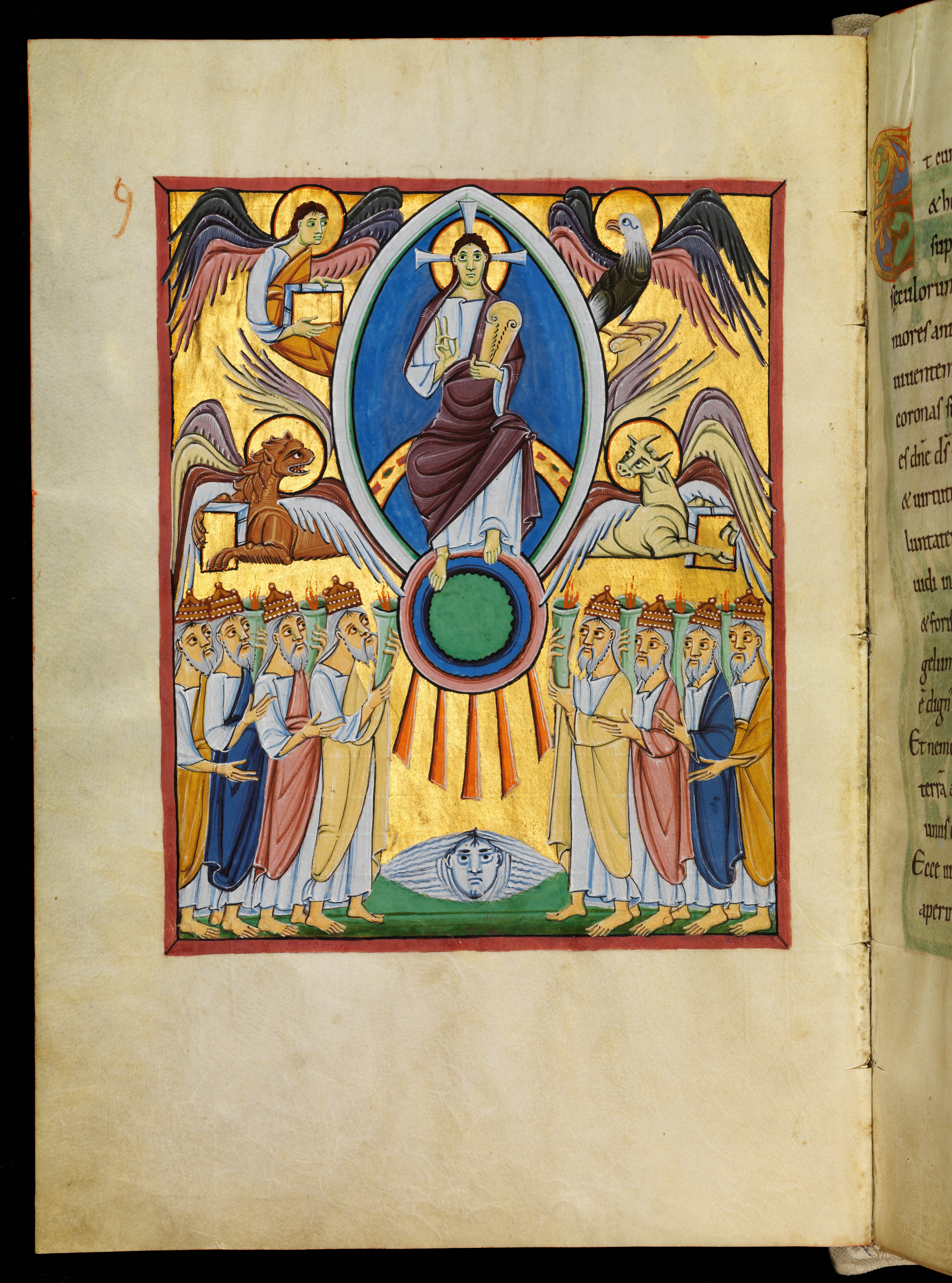 Worship before the Throne of God